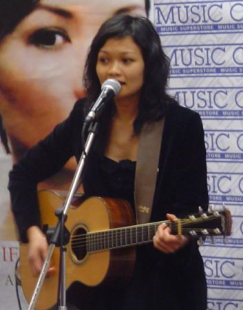 Bic Runga, New Zealand singer/songwriter. In Store in Dublin, July 2004. Own photograph.